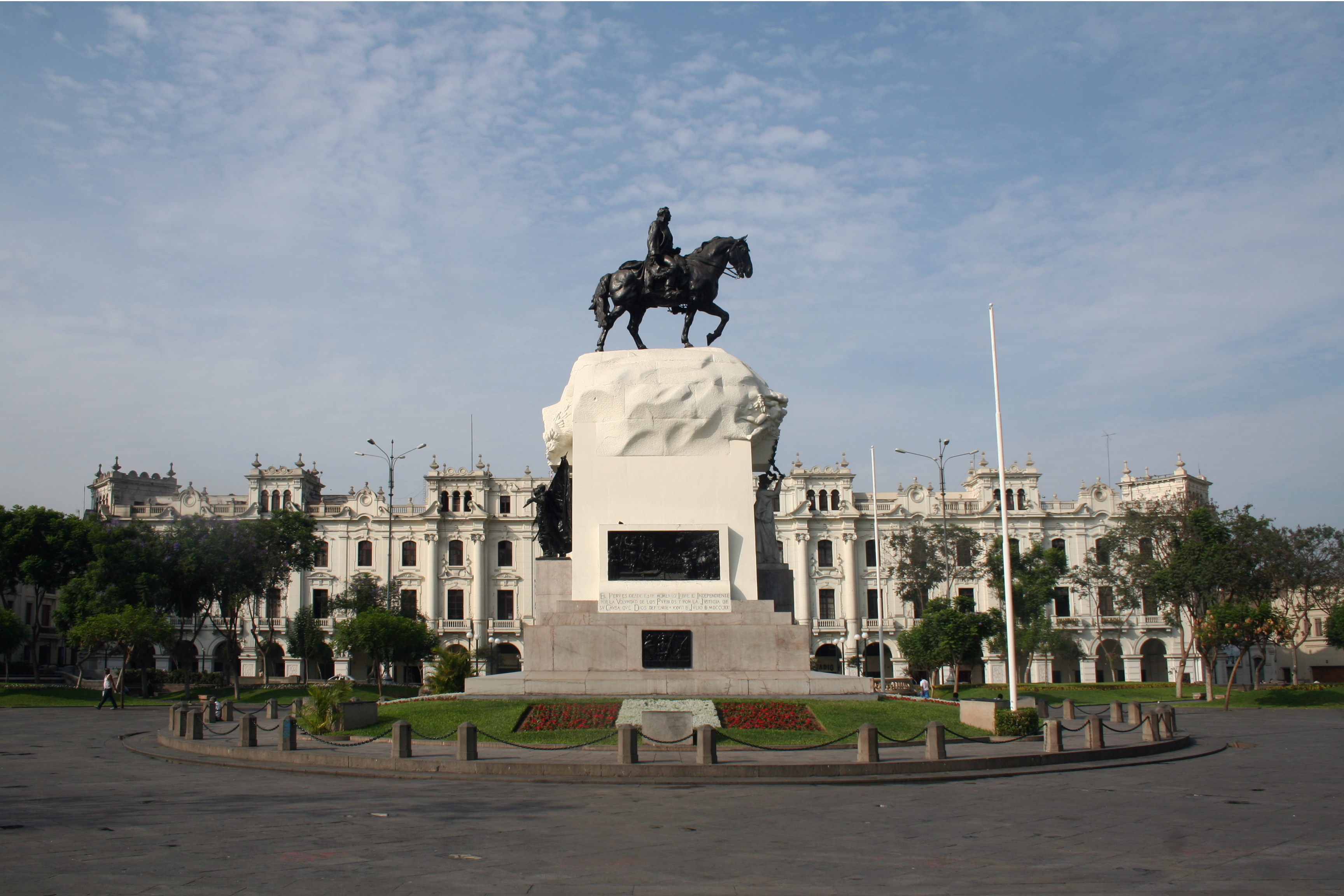 Plaza San Martín / Lima Statue of San Martin